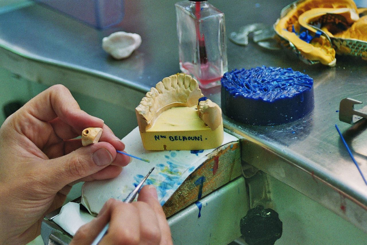 Tooth prothesis